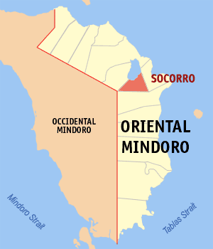 Map of Oriental Mindoro showing the location of Socorro